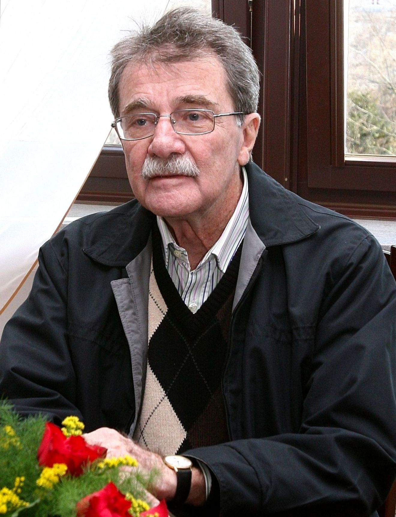 Teodoro Petkoff in the Polish Senate